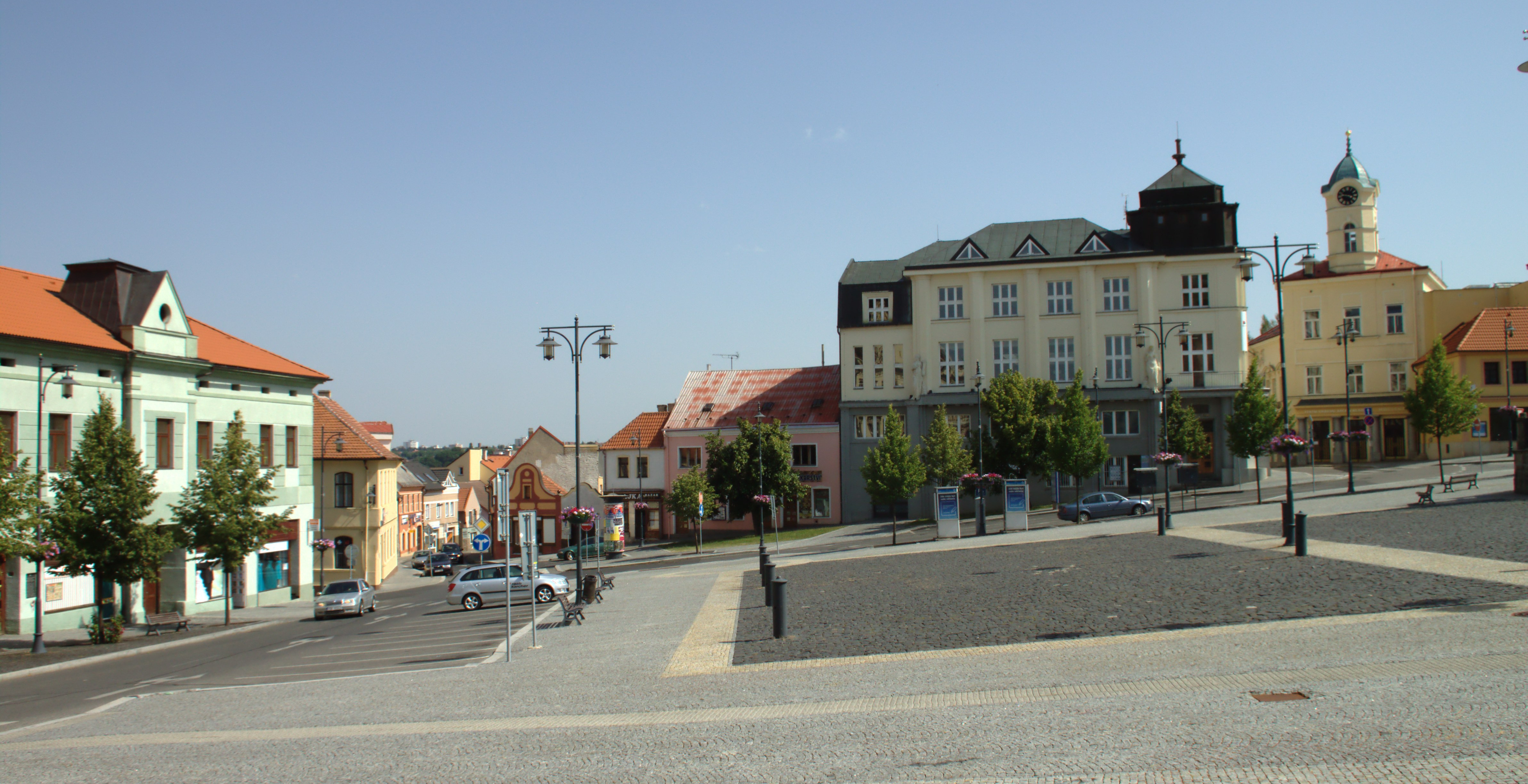 Southeast corner of main square in Kladno city centre, Central Bohemian Region, CZ